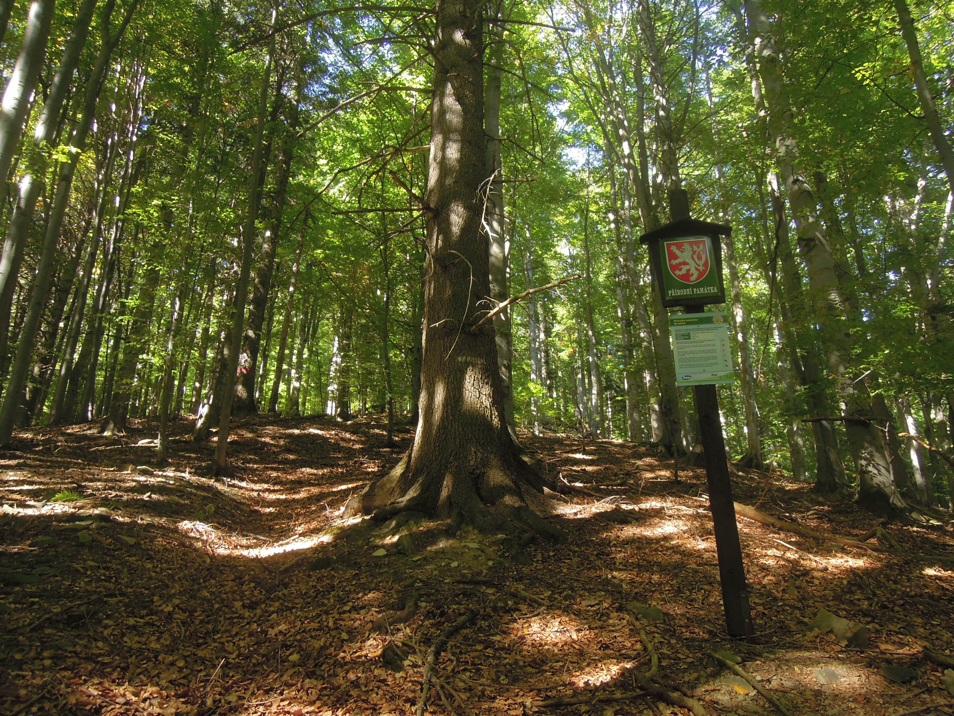 Natural monument Brodská near Halenkov and Nový Hrozenkov, Vsetín District, Zlín Region, Czech Republic